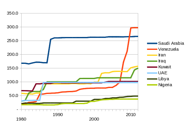 History of decleared oil reserves (billions of barrels) by major OPEC countries since 1980, based on data from